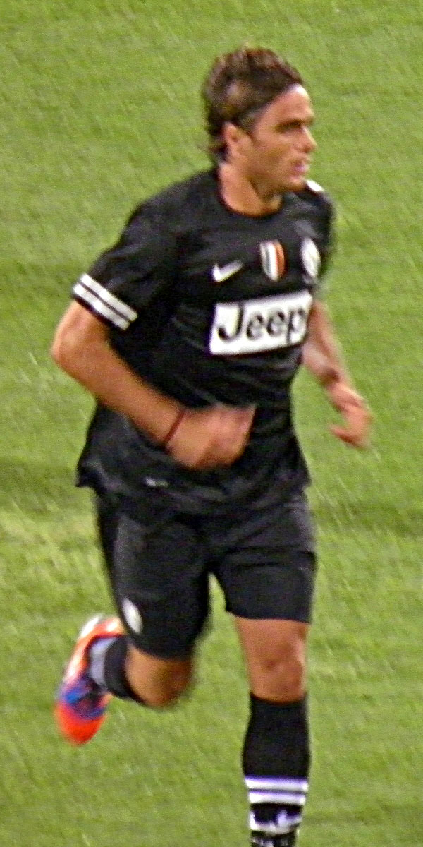 Italian footballer Alessandro Matri during the friendly match Juventus-Málaga played in Salerno in the summer of 2012.